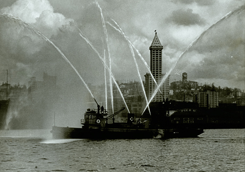 Item 64770, Miscellaneous Prints (Record Series 9910-01), Seattle Municipal Archives. Seattle Fireboat Alki